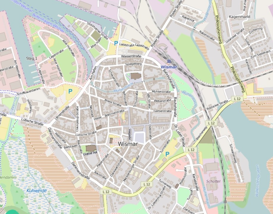 The Old Town of Wismar (Wismar town centre), Mecklenburg-Vorpommern, Germany